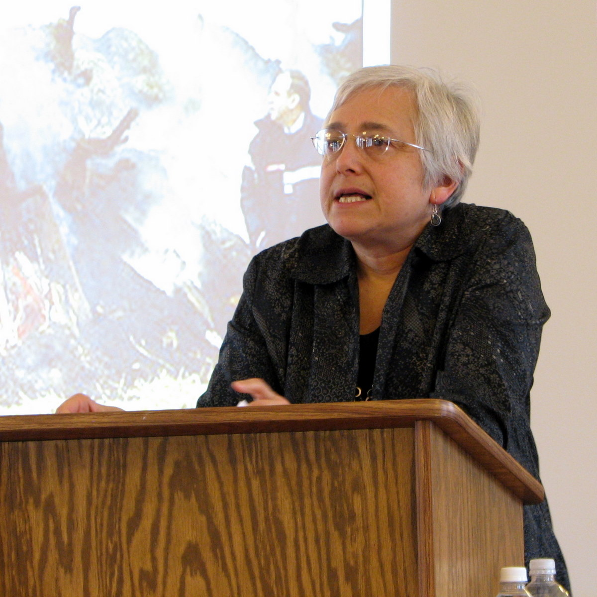 Historian Harriet Ritvo presenting a colloquium talk for the History of Science, History of Medicine Program at Yale University on March 26, 2007.